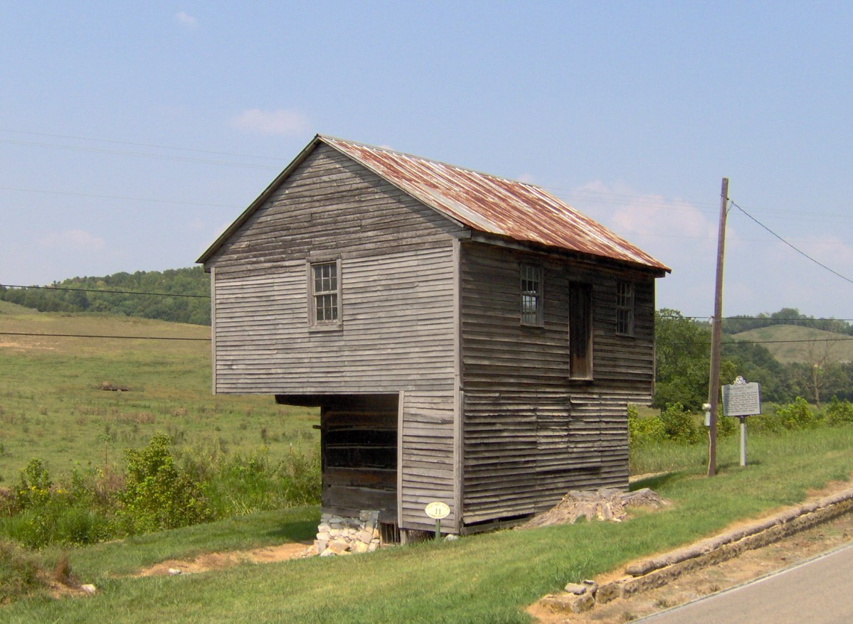 Swaggerty Blockhouse along US-321 near Parrottsville, in the U.S. state of Tennessee. Originally believed to have been built by early settlers in 1787, recent archaeological evidence suggests the blockhouse was actually a cantilever barn built around 1860. The blockhouse was added to the National Register of Historic Places in 1973.